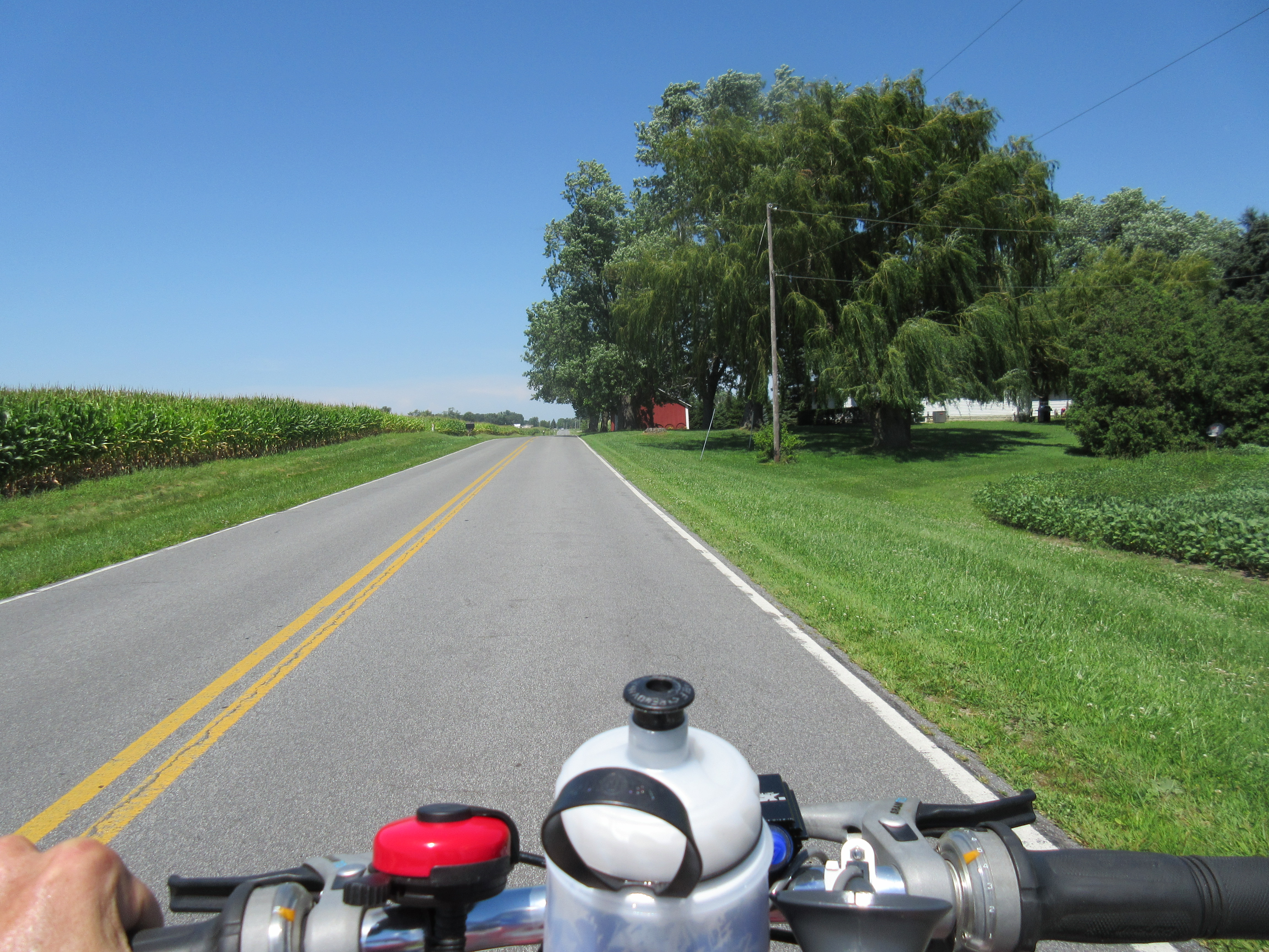 Northbound on County Road 16 in Clinton Township, Fulton County - rural scenery of corn fields and farmstead